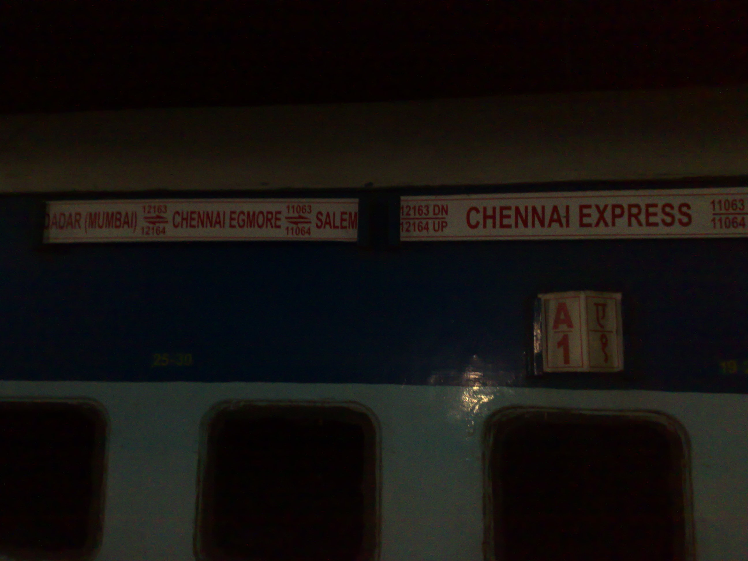 12163 Dadar Chennai Egmore Express